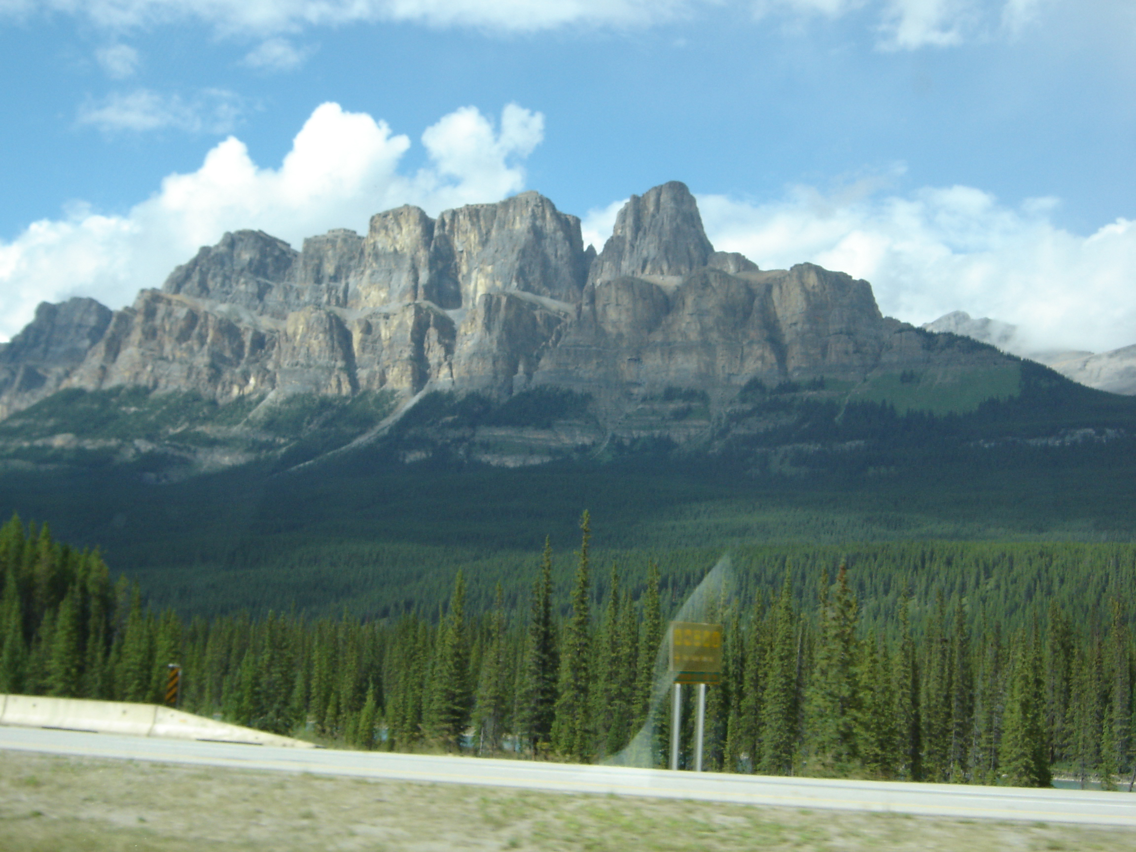 Castle Mountain, Alberta, Canada